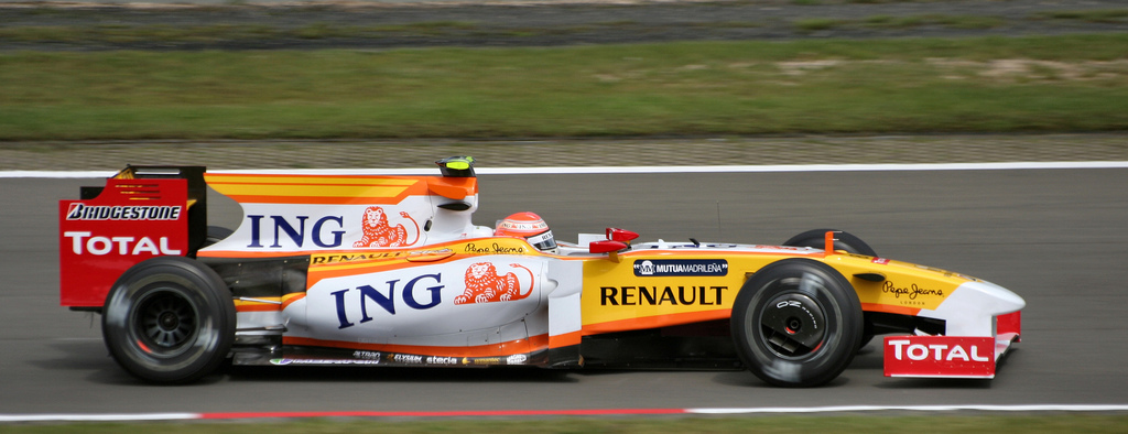 Nelson Angelo Piquet driving for Renault F1 at the 2009 German Grand Prix.